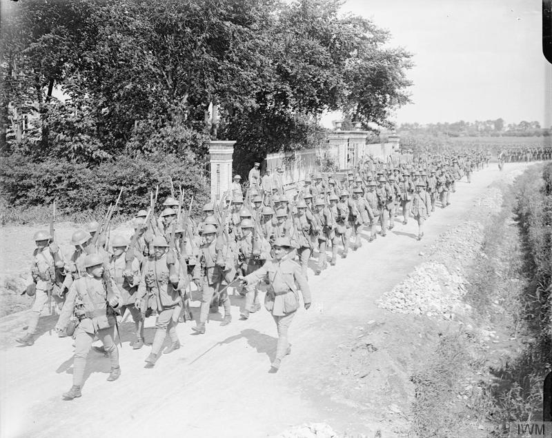 The Portuguese Expeditionary Corps on the Western Front, 1917-1918 Portuguese troops on the march near Locon, 24 June 1917.